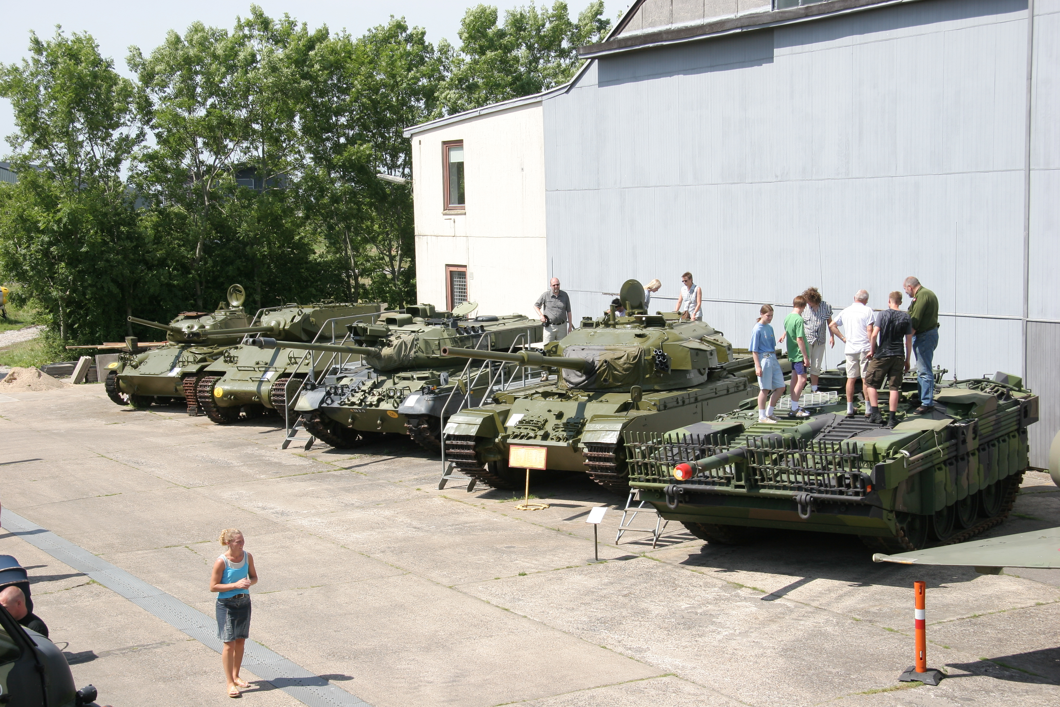 Tanks in the outdoor exhibition at Aalborg Defence and Garrison Museum